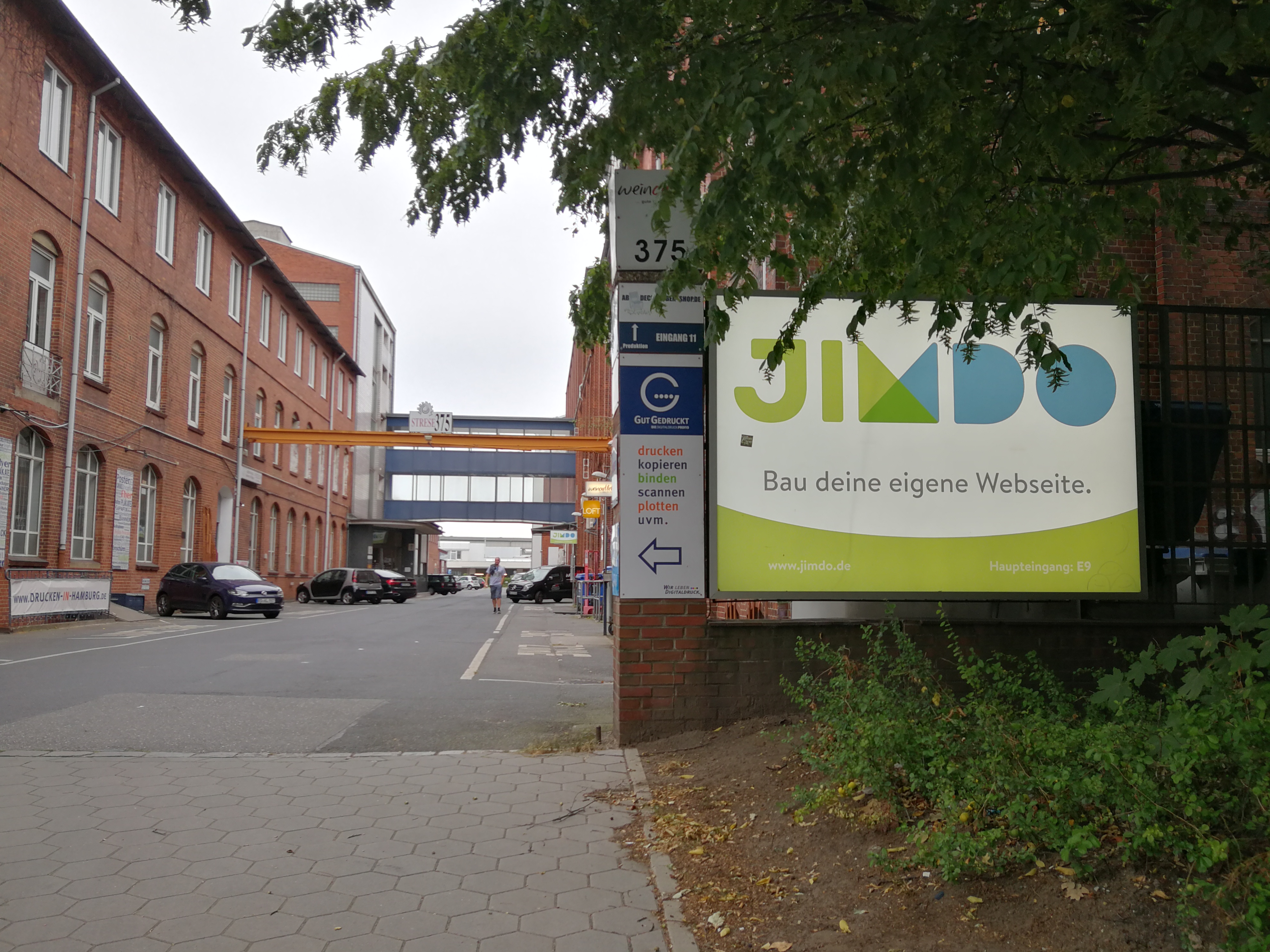 Entrance to the compound where Jimdo has its headquarters. Bahrenfeld, Hamburg, Germany.